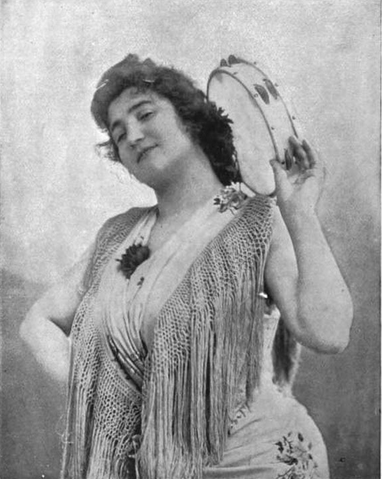 Theatrical People Talked About